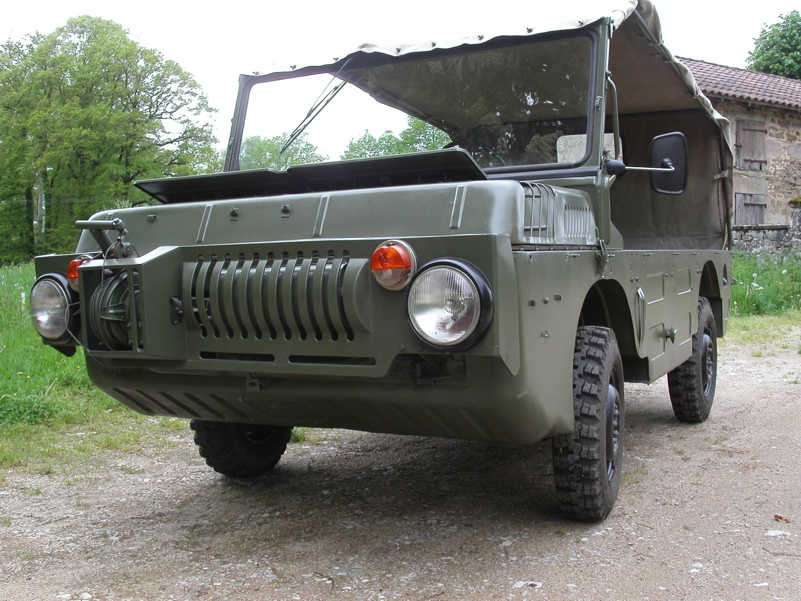 LuAZ 967-M front